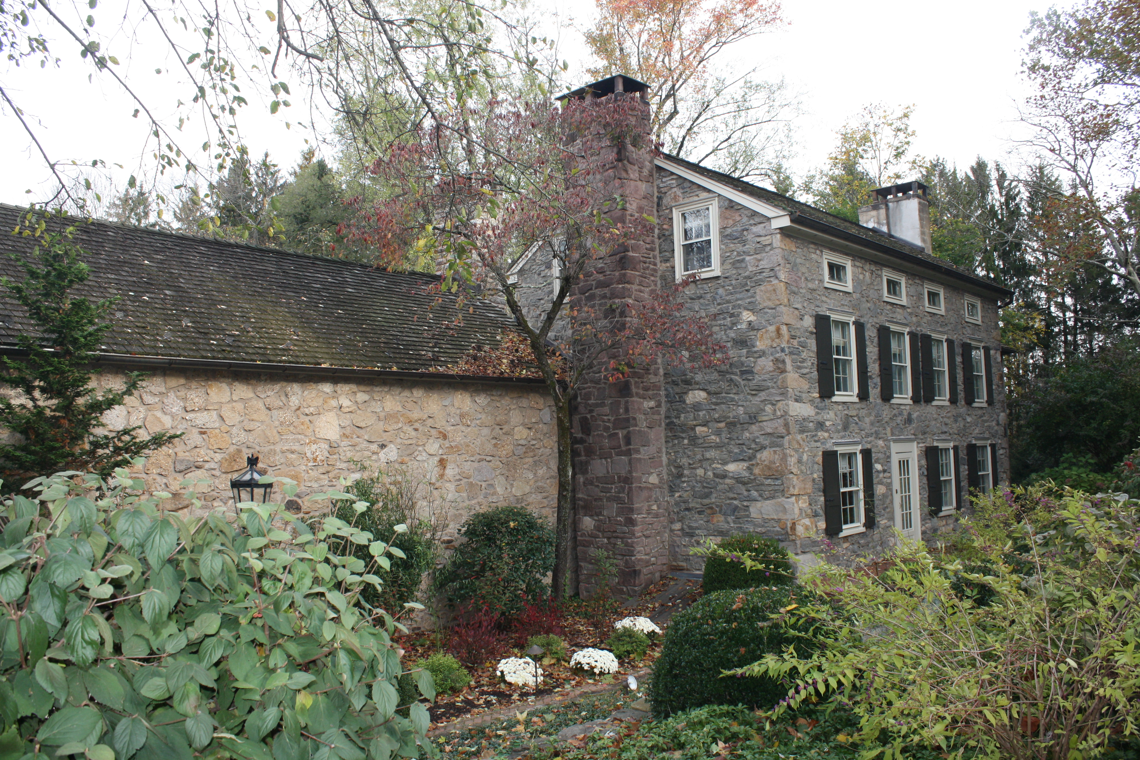 Upper Aquetong Valley Historic District is a national historic district located in Solebury Township, Bucks County, Pennsylvania. Residence on Meetinghouse Rd. Object location40° 21′ 44″ N, 75° 00′ 07″ W